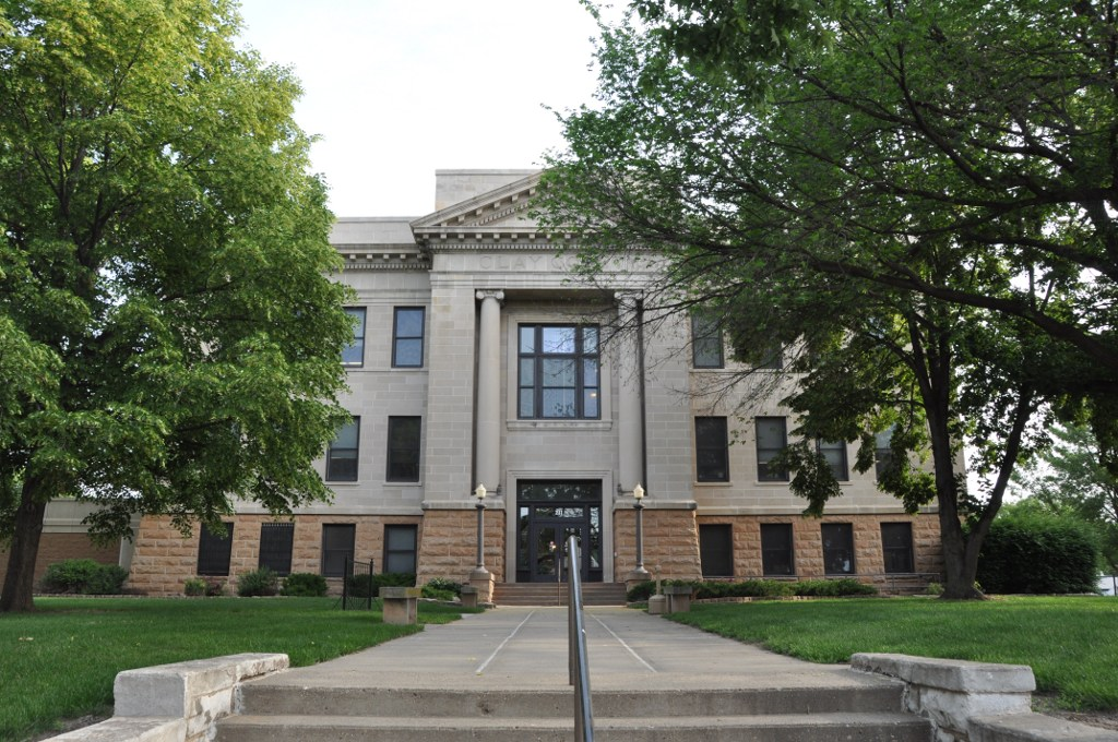 The Clay County Courthouse in Vermilion, South Dakota.